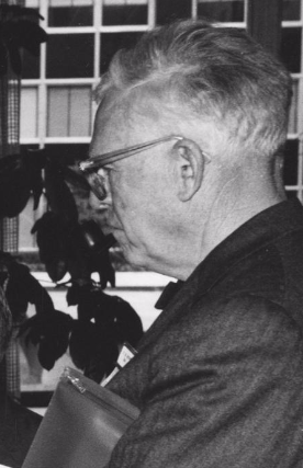 Close-up of Clifford K. Shipton, taken in 1966 at the Extraordinary Congress of the International Council on Archives.